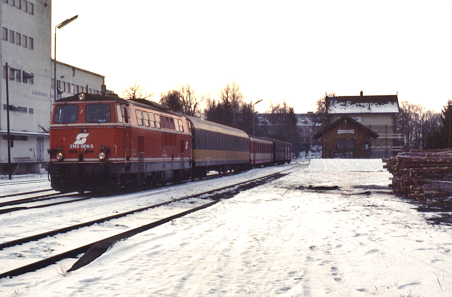 2143 066-5 with train 2207 at Drosendorf station. Behind the engine a mail carriage can be seen.